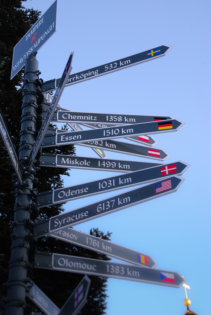 Sign indicating distances to twin town from Tampere, Finland